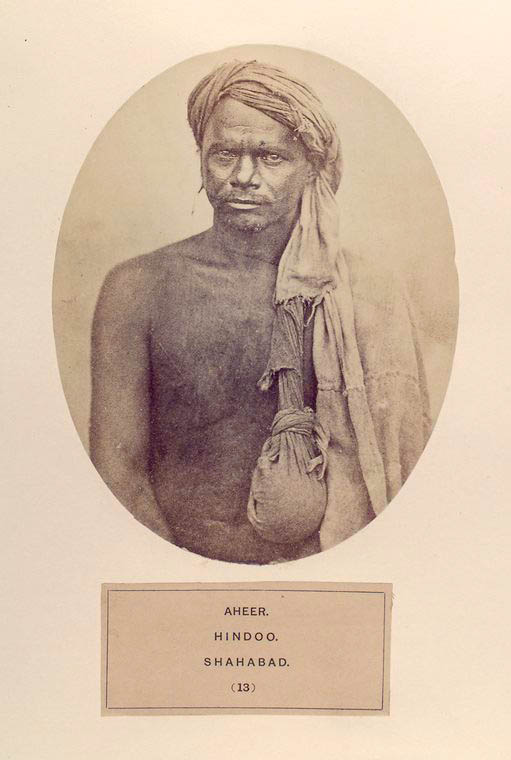 This image is from the book, The People of India, a series of photographic illustrations, with descriptive letterpress, of the races and tribes of Hindustan, originally prepared under the authority of the government of India, and reproduced. by J. Forbes Watson and John William Kaye between 1868 - 1875.